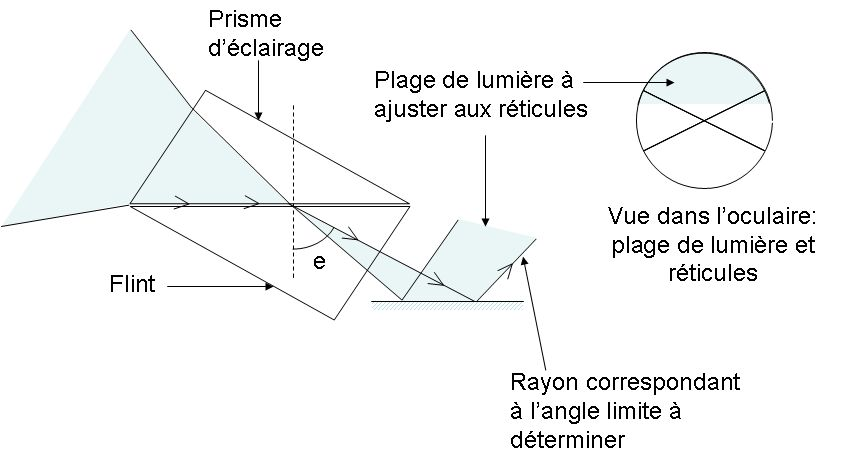 Abbe refractometer prism limit angle method